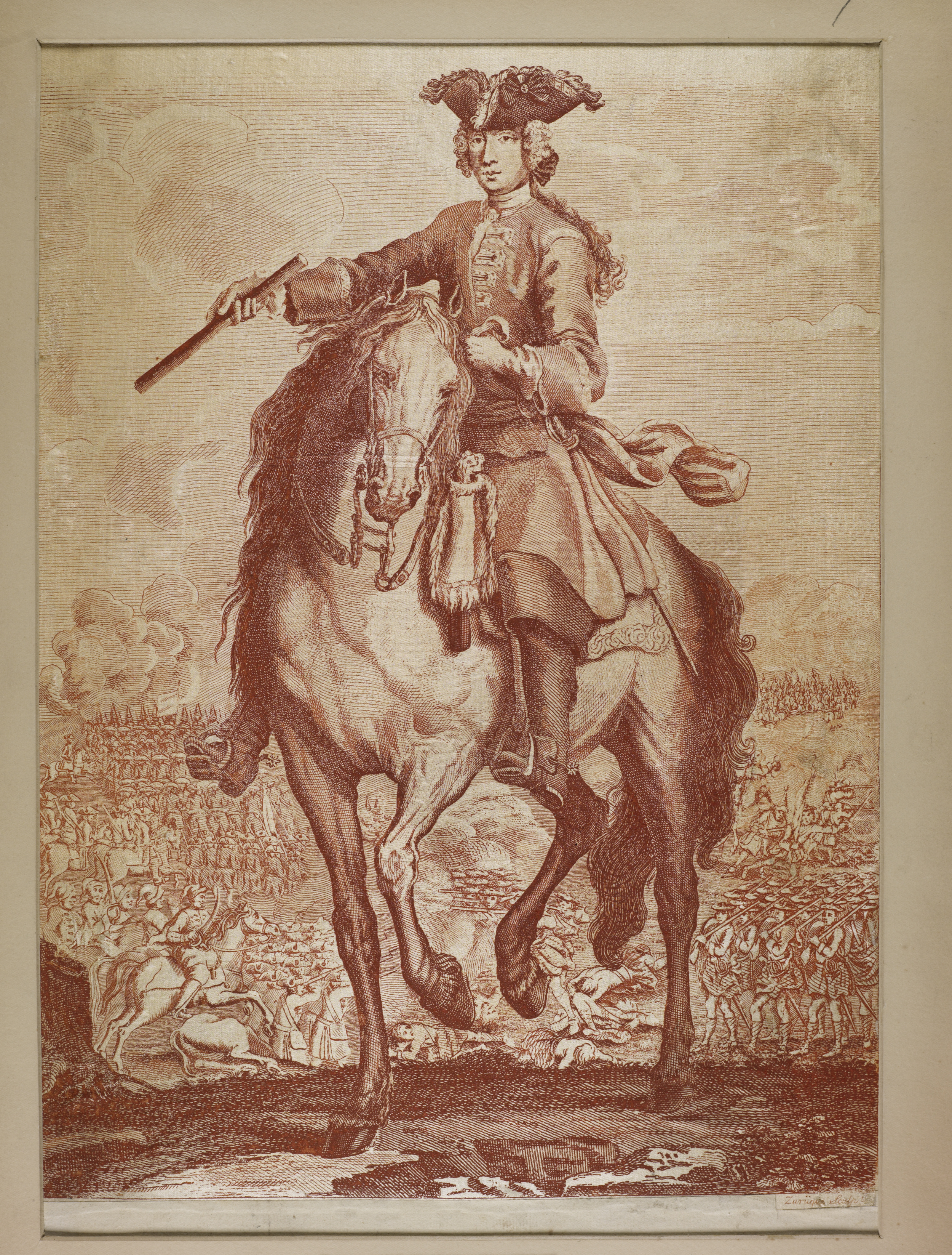 Prince Charles Edward Stewart (formerly thought to be William Augustus, Duke of Cumberland, 1721-1765, youngest song of George II.) Line, equestrian with battlefield background by Zurucke. Portrait of Prince Charles Edward Stuart on horse, with soldiers in kilts in battle with uniformed soldiers in background